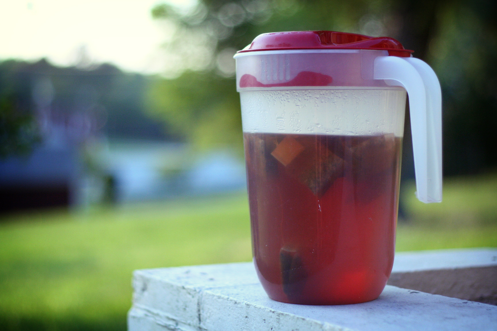 View On Black